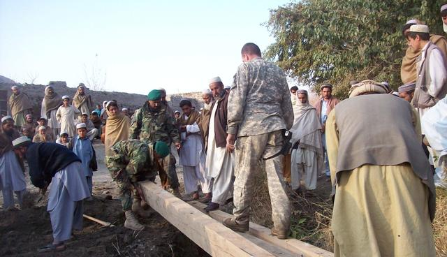 Afghan National Security Forces members, local citizens and U.S. Soldiers from 3rd Brigade, 1st Infantry Division, 6th Squadron, 4th Cavalry Regiment lay planks for a bridge in the Lal Por District of Afghanistan Jan. 26, 2009. The bridge will provide easier access to isolated areas in the Nangahar province. (U.S. Army photo by Capt. Jay Bessey/Released)